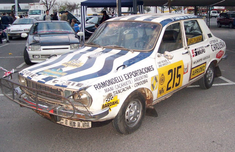 The class-winner in the 1978 Vuelta a la América del Sud (South America Marathon), an Argentinian-built Renault R12TS driven by Argentinian racers Jorge Recalde and Jorge Baruscotti. The overall winners were Cowan/Malkin in a Mercedes-Benz 450 SLC.